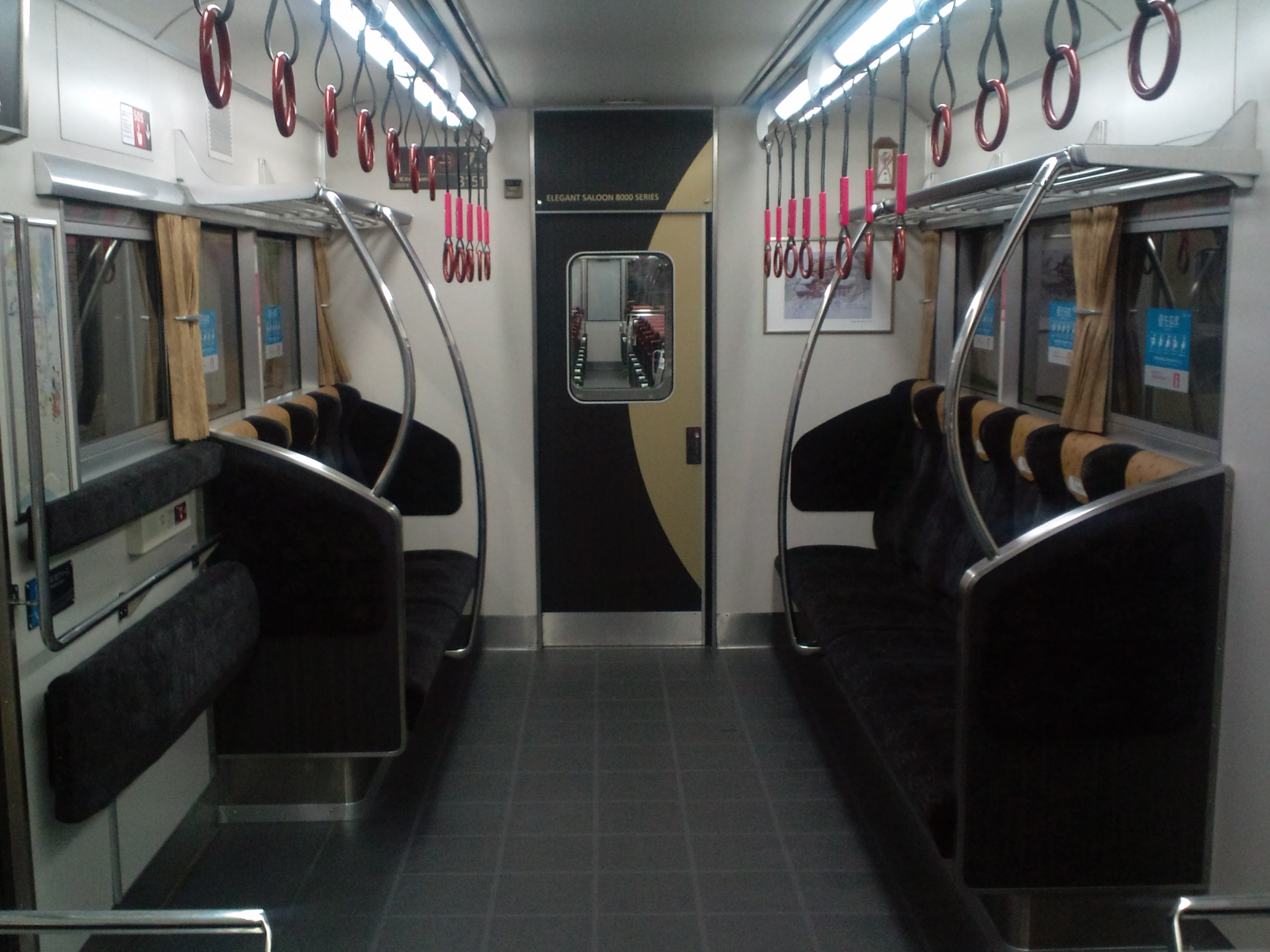 Longitudinal seating at one end of refurbished Keihan 8000 series car 8151 (car 7 of set 8001)